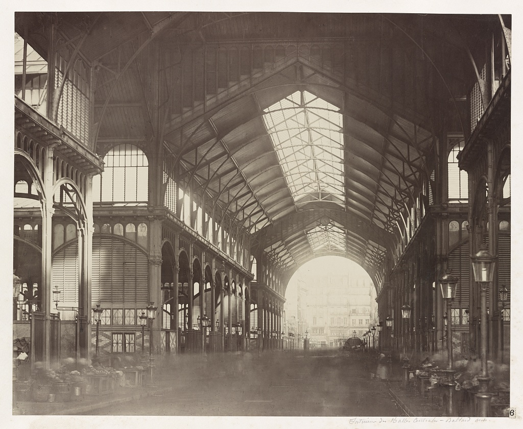 Title: Central market, Paris, France. Interior] / Ch. Marville Abstract/medium: 1 photographic print : mounted on board ; 32 x 39 cm. (image), 63 x 87 cm. (board).